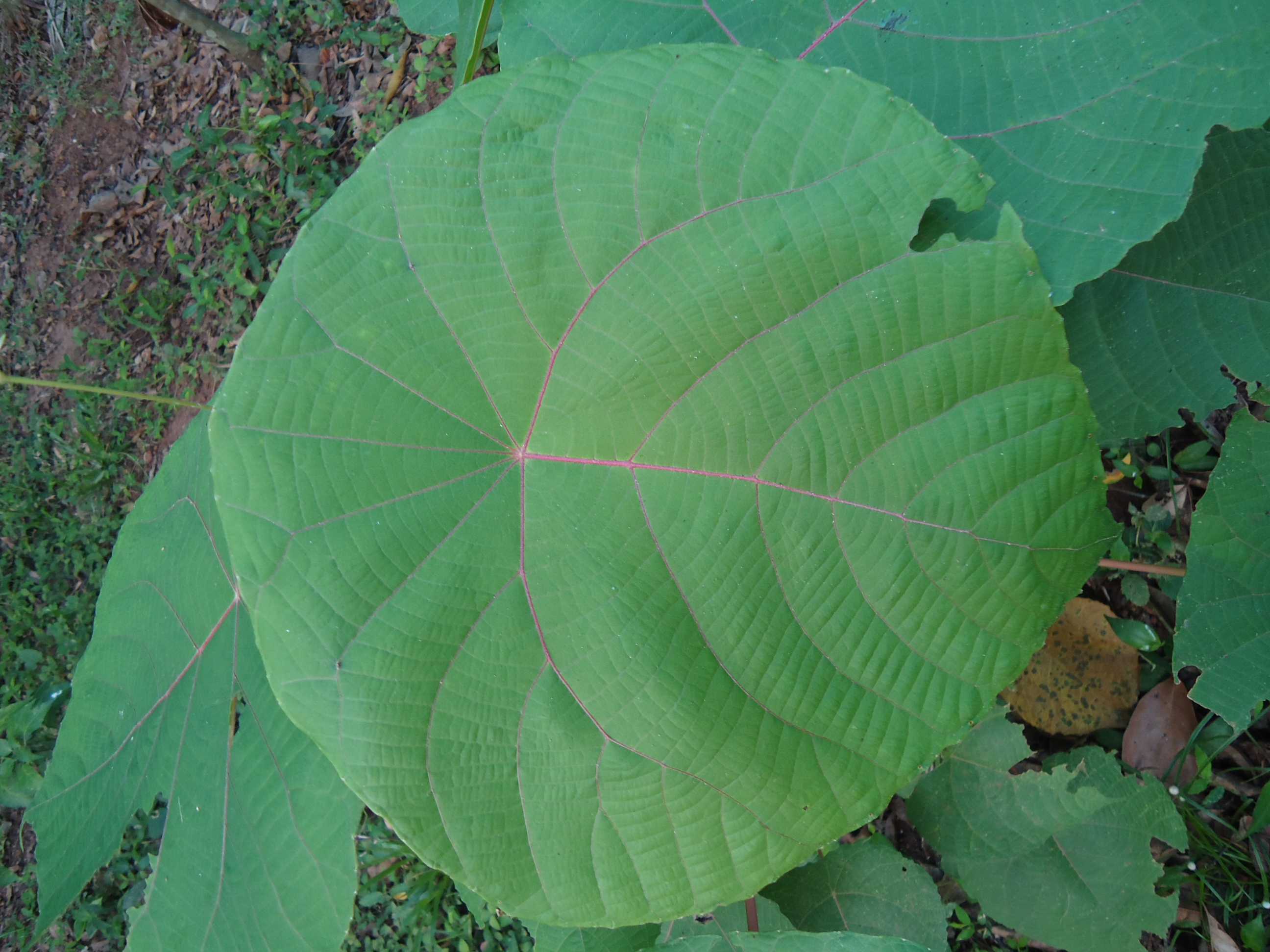 Leaf of Macaranga peltata